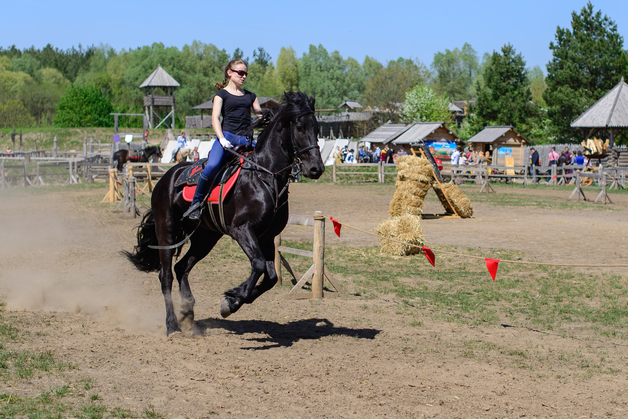 500px provided description: Horse Riding [#horse ,#horse riding]